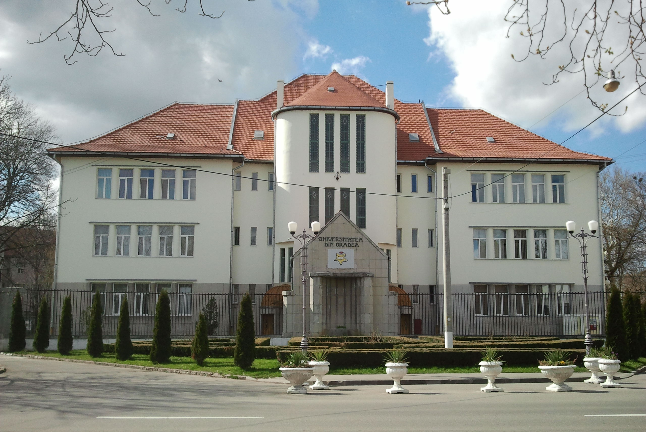 University of Oradea - Buliding A